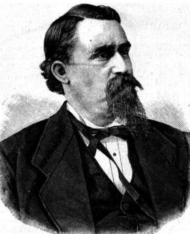 Lowndes Henry Davis, US Representative from Missouri